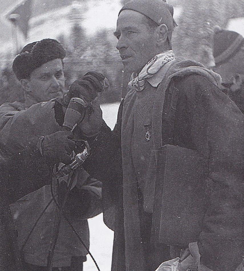 Cezary Chlebowski interviewing Stanislaw Marusarz in 1952